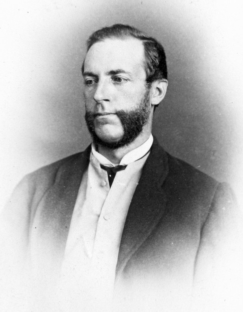 John Harris, Canadian Manufacturer (1841 - 1887). Silver salts on paper mounted on paper - Albumen process This photograph was taken in Montreal, QC, in 1867 by William Notman (1826-1891), and so is incontestably in the public domain.